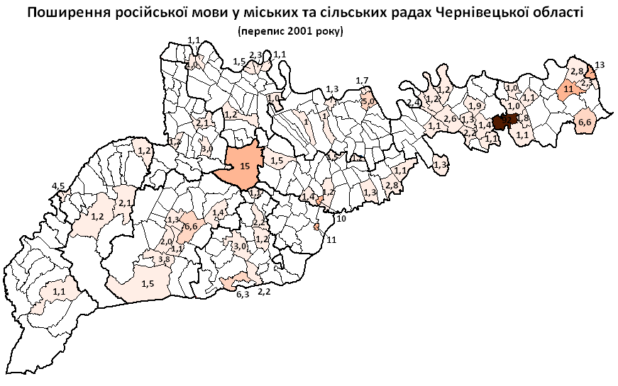 Russian as native language in Chernivtsi oblast of Ukraine according to 2001 census